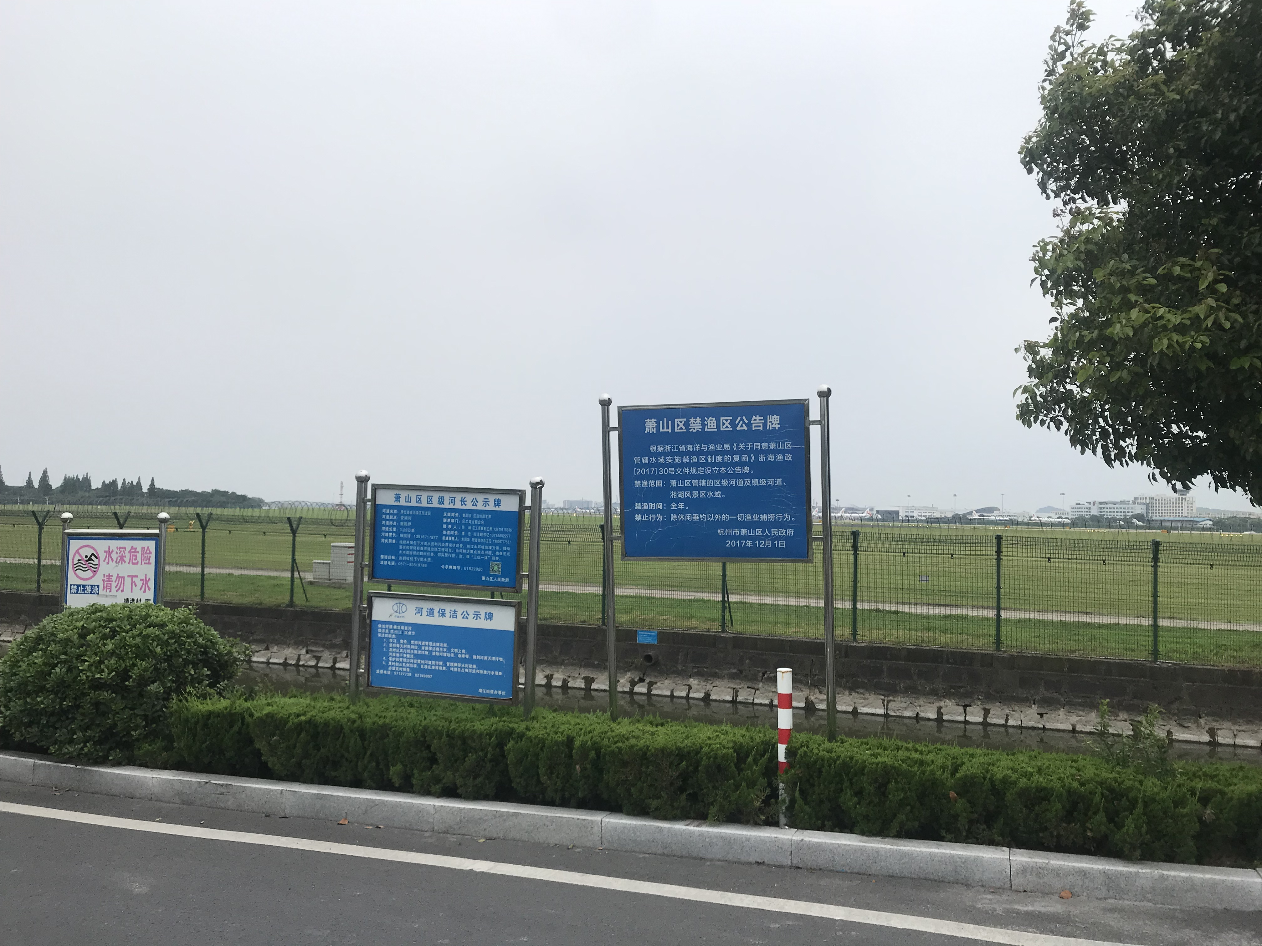 Still managed by Jingjiang Government?